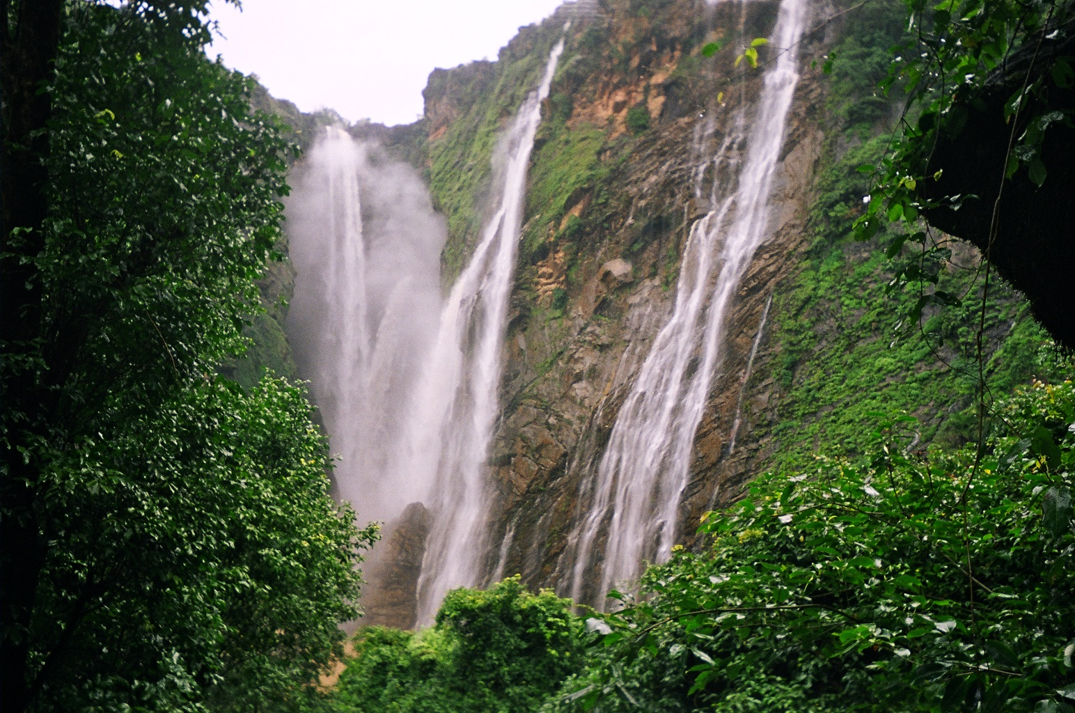 Jog Falls, Karnataka, India. This picture was taken by User:BostonMA in August 2003